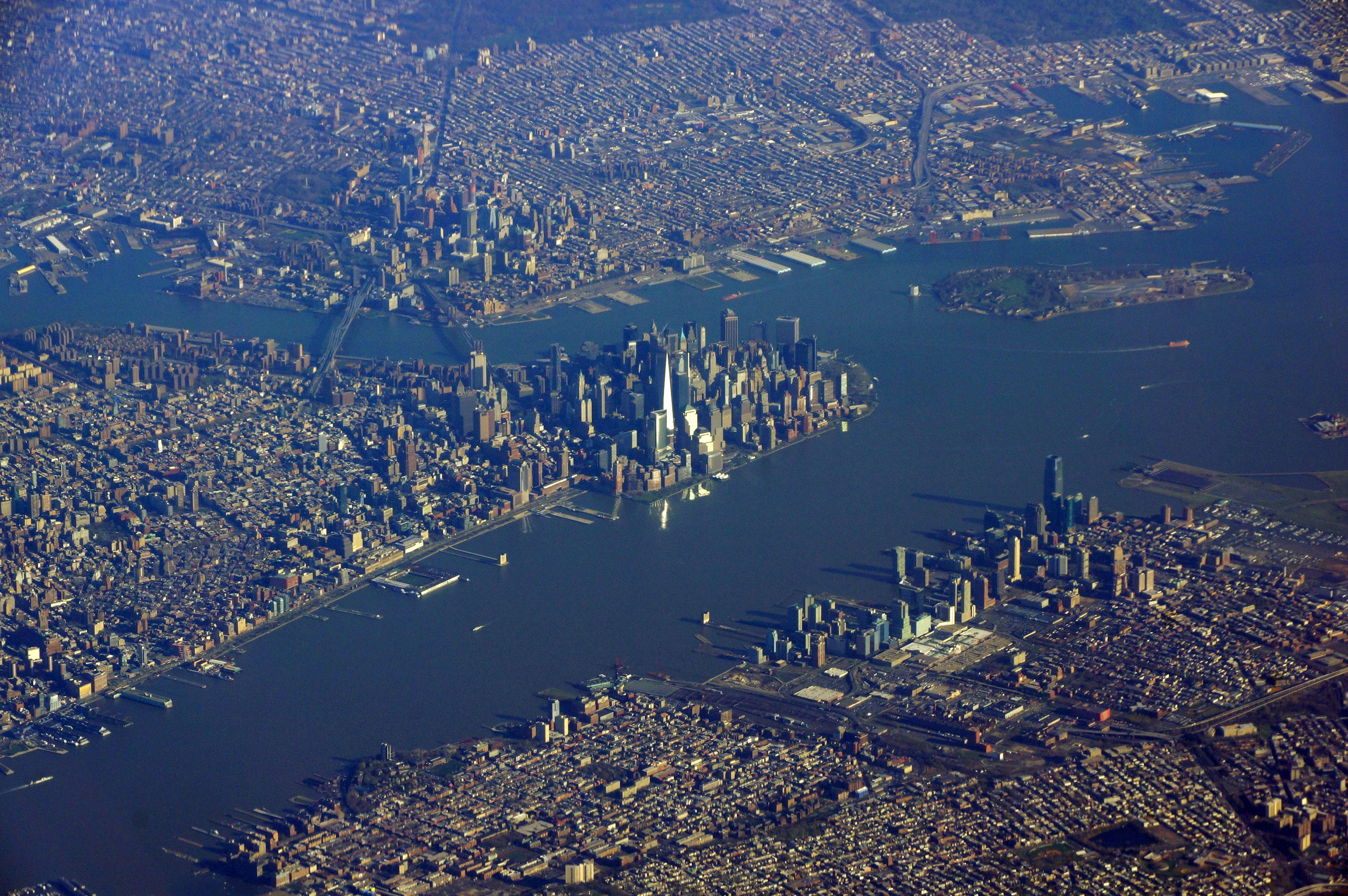 Lower Manhattan from the air, April 2013.